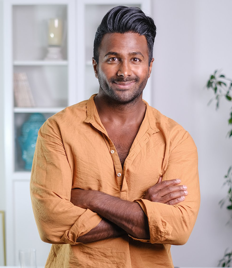 Dr. Biyon Kattilathu at International Filmfestival "Berlinale" 2020